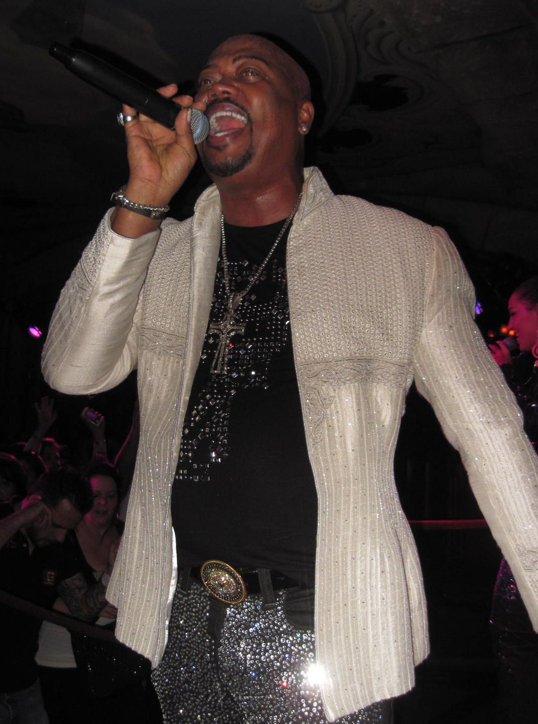 Rapper Lane McCray from La Bouche at A-Danceclub (Vienna)